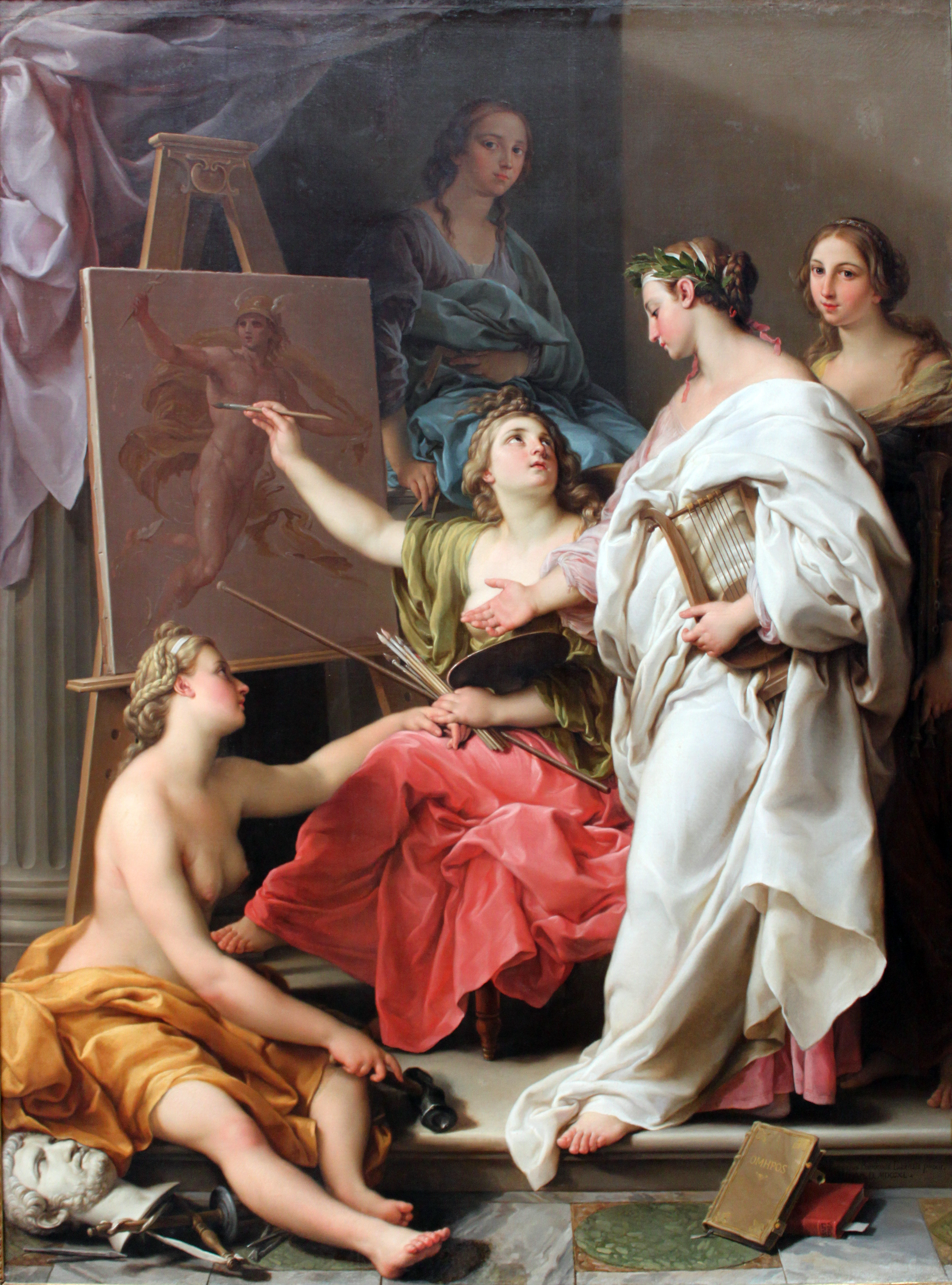 Allegory of the Arts